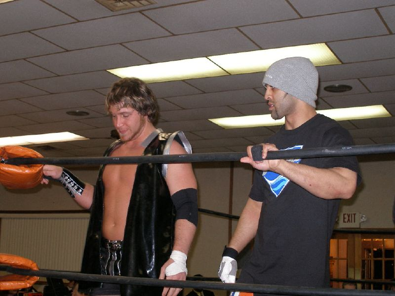 Professional wrestlers Chris Sabin and Sonjay Dutt in the ring at a Chikara show in February 2007